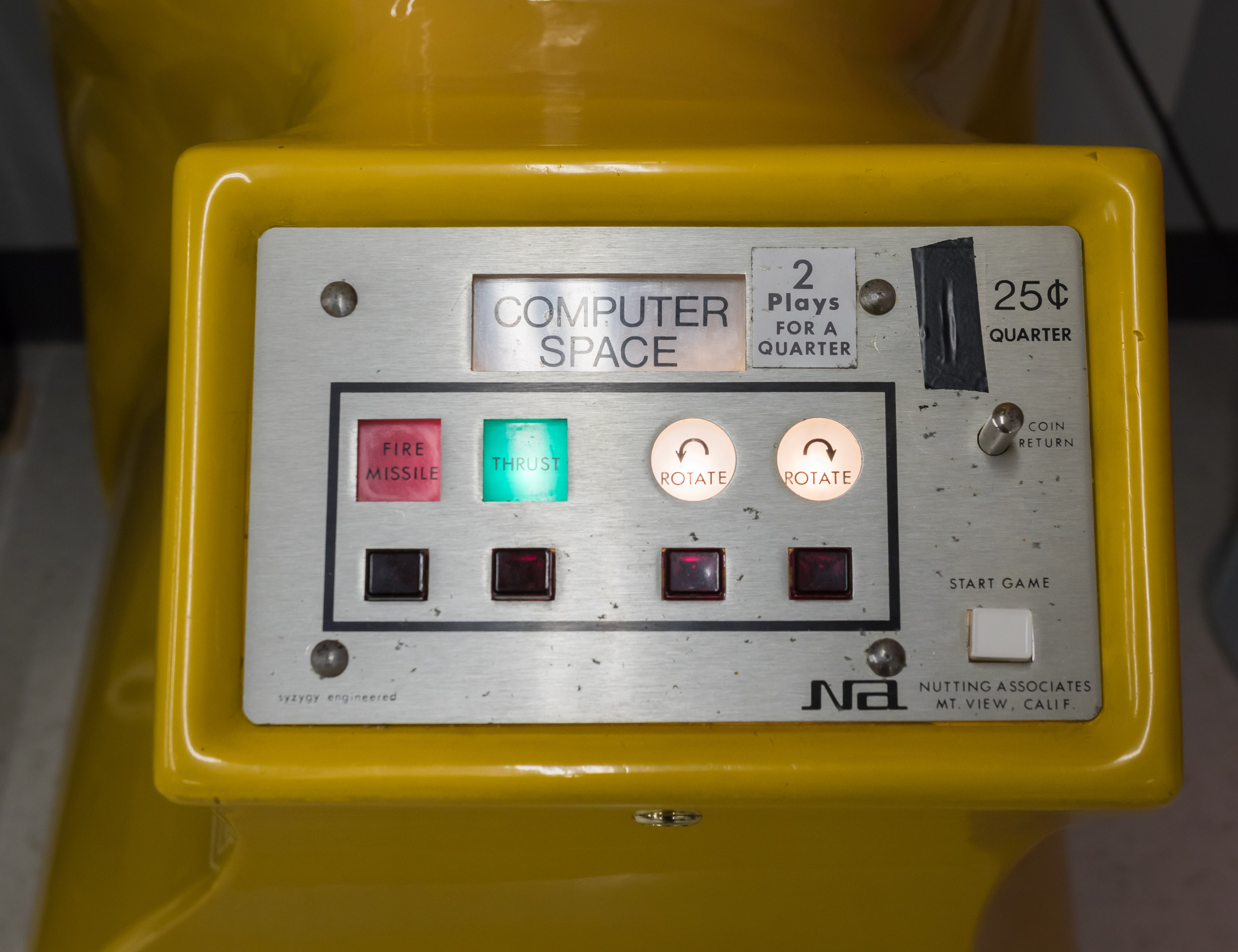 Living Computers - Computer Space